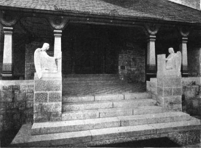 Kirche Nikolassee, Haupteingang